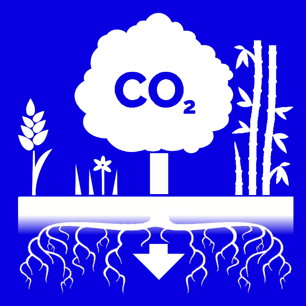 The graphic displays the natural process of carbon dioxide capture from a variety of flora. Shown in the image are cover crop sorghum, grass and flowers, a tree, and bamboo. The roots bring the carbon dioxide underground as shown by the arrow.